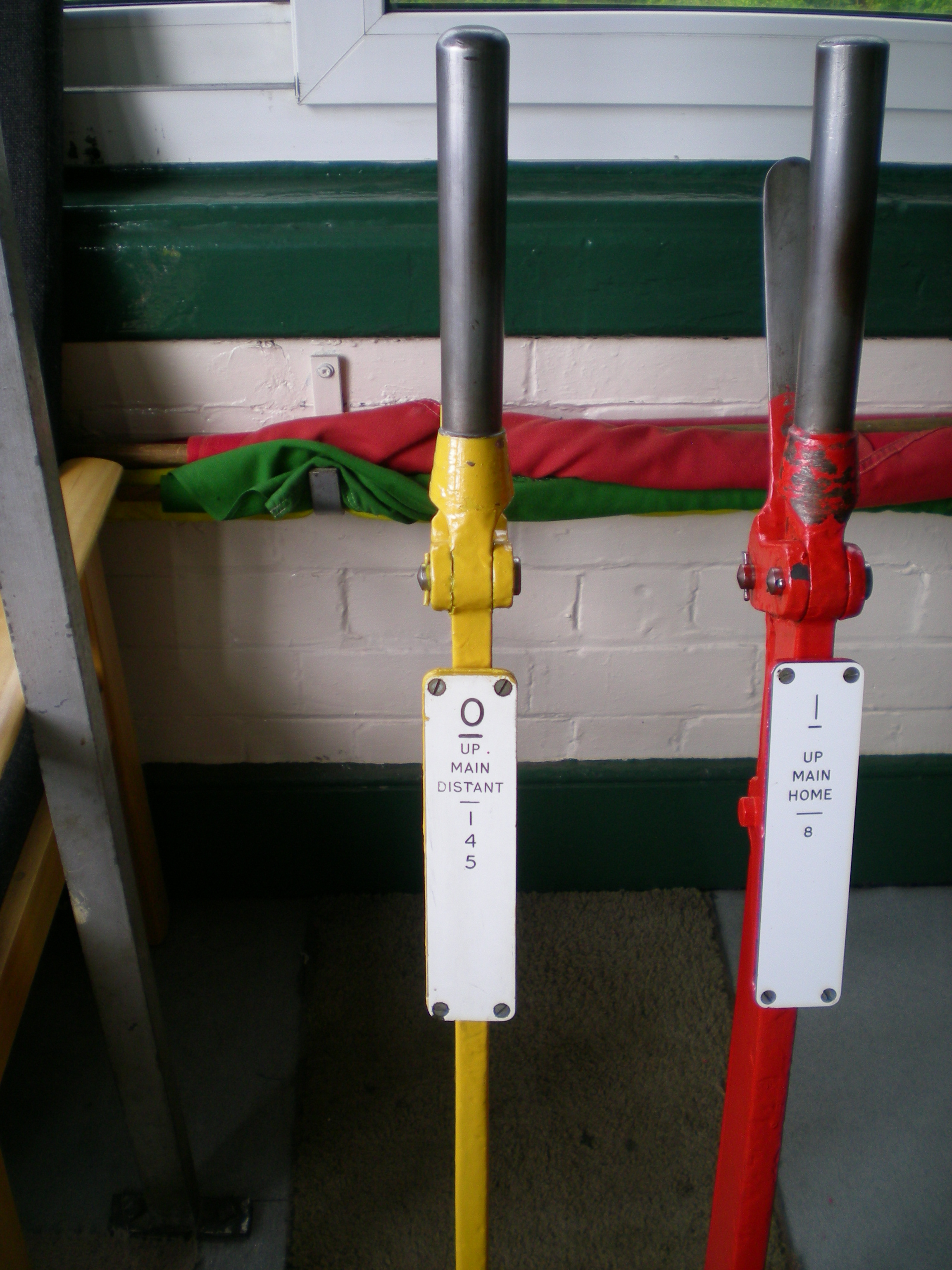 Yellow L0 lever and Red L1 lever controlling Up signals at Ledbury Signal Box, Herefordshire. Behind mounted on wall brackets can be seen signalling flags